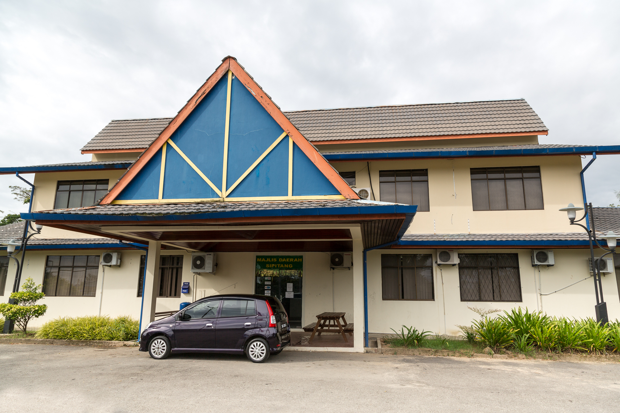 Sipitang, Malaysia: District Council Sipitang (Majlis Daerah Sipitang)